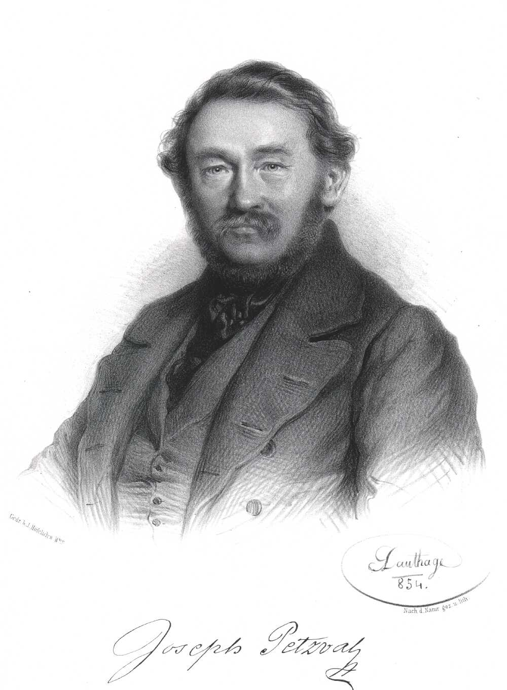 Jozef Maximilian Petzval (1807-1891), slovak mathematician and physicist